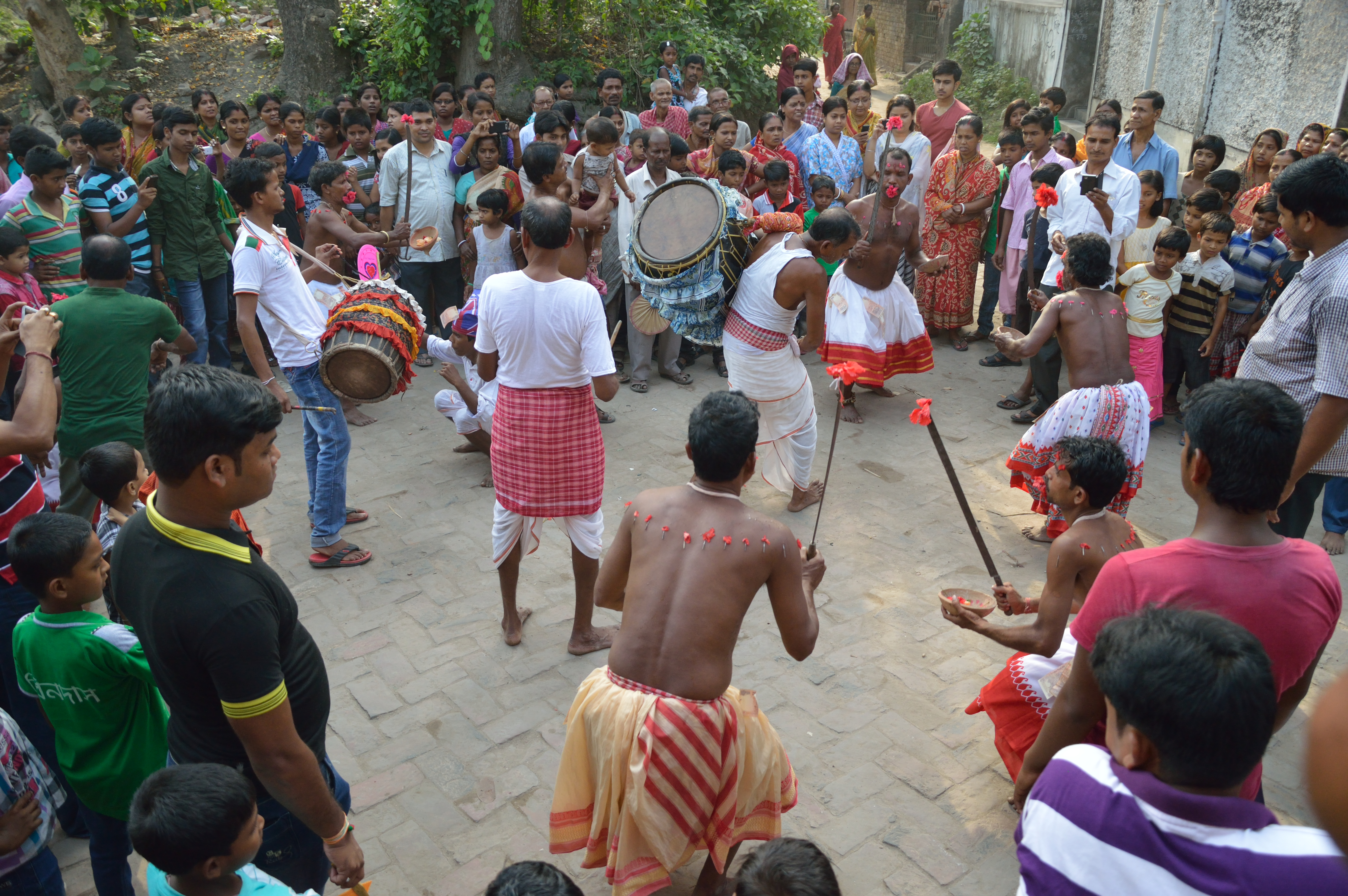 This photograph has been taken during the Gajan (festival of Shiva at the last day of the Indian calender) at Bainan village, Bagnan, Howrah.